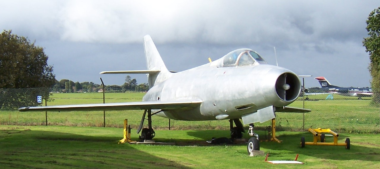 Dassault Mystere IVA No 121 at the City of Norwich Aviation Museum.